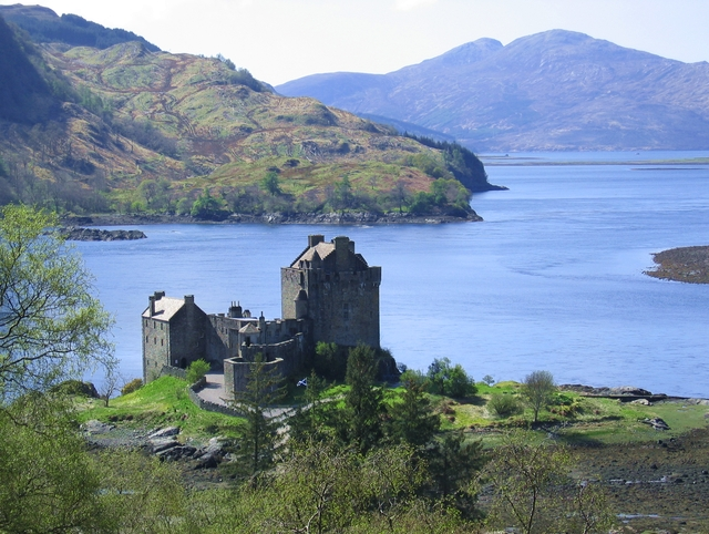 Eilean Donan Castle A less common view of the much photographed castle, taken from the old road above Dornie.